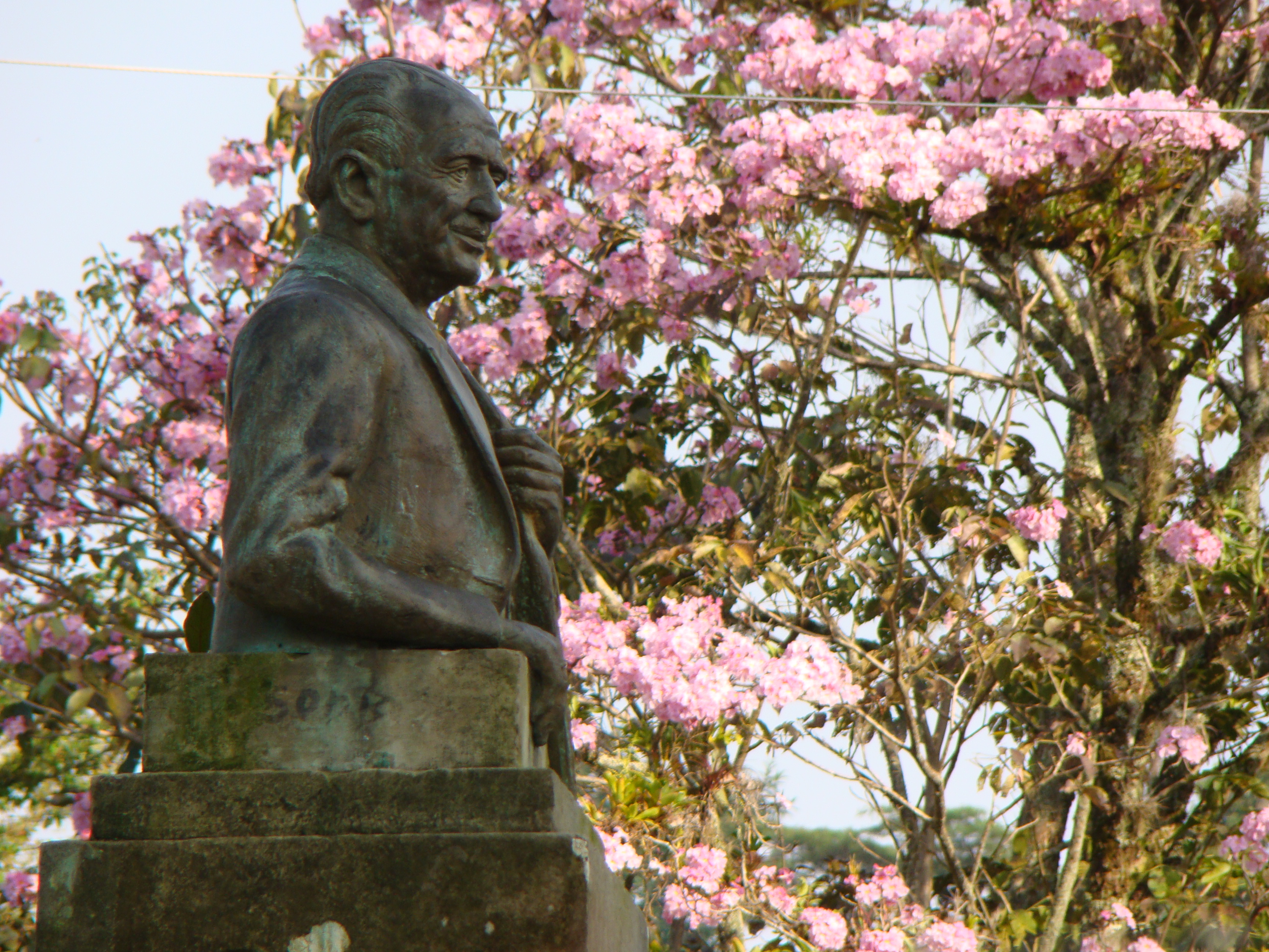 Lucas Caballero Barrera